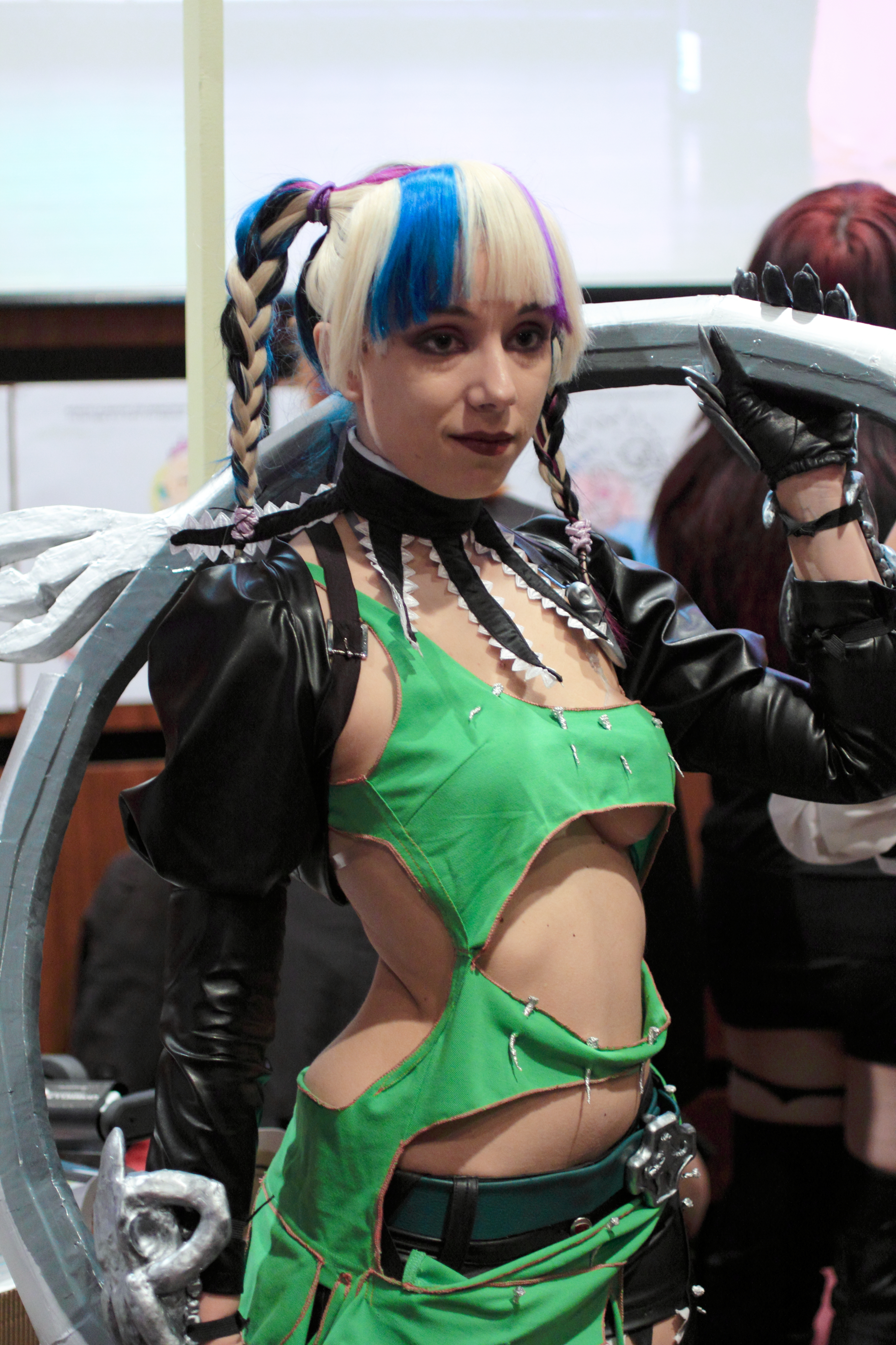 Cosplay in Comicdom 2012 in Athens, Greece